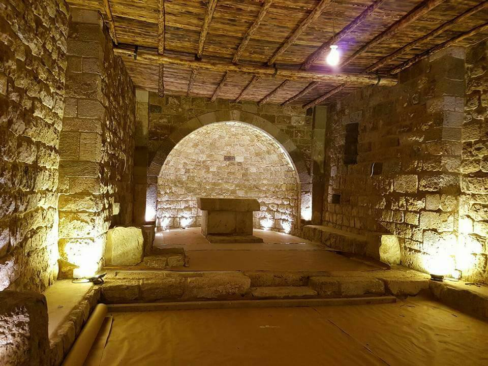 كنيسة و مقر البطركية حاليا